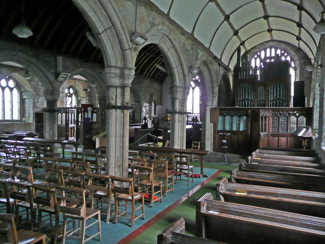 Interior of St Tetha's church A large village church with its pews partly removed.